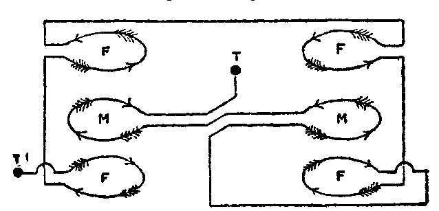 Connexions of Kelvin ampere balance. Illustration from 1911 Encyclopædia Britannica, article Amperemeter.